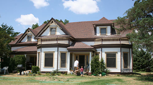 This is a picture from July 2006 of the Tubbs House in Lubbock, Texas.